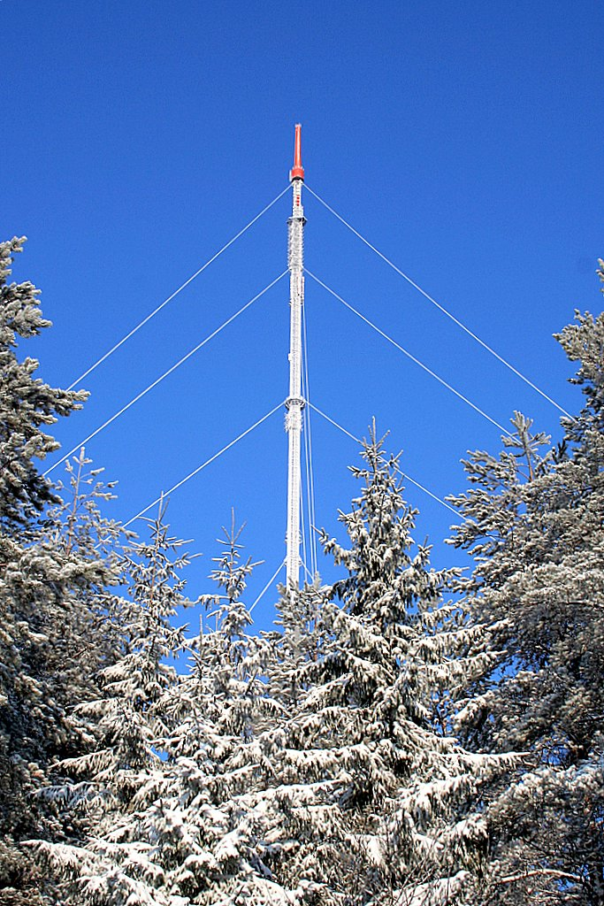 Tiirimaa radio and television mast in Hollola, Finland, built in 1967 and owned by Digita Oyj (a subsidiary of Télédiffusion de France). References: The regional municipal tourism information agency, The owner, Digita.